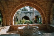 The monastery courtyard of Ayia Napa